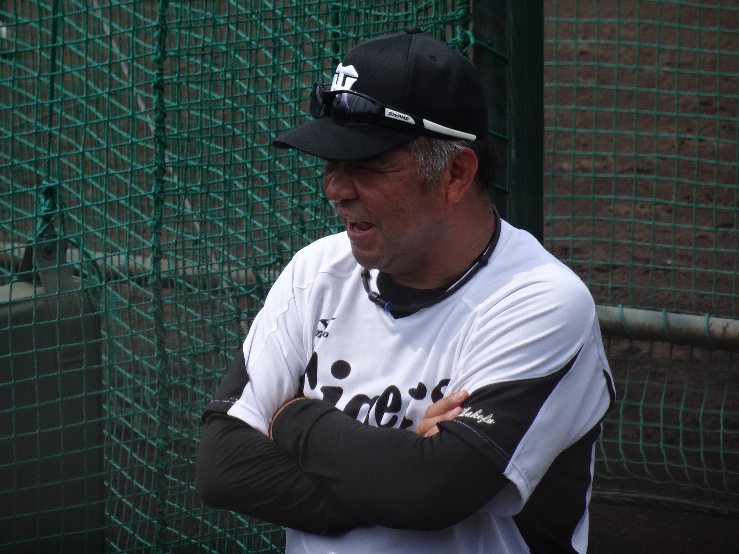 Masayuki Kakefu, development coordinator of the Hanshin Tigers, at Hanshin Naruohama Baseball Ground.